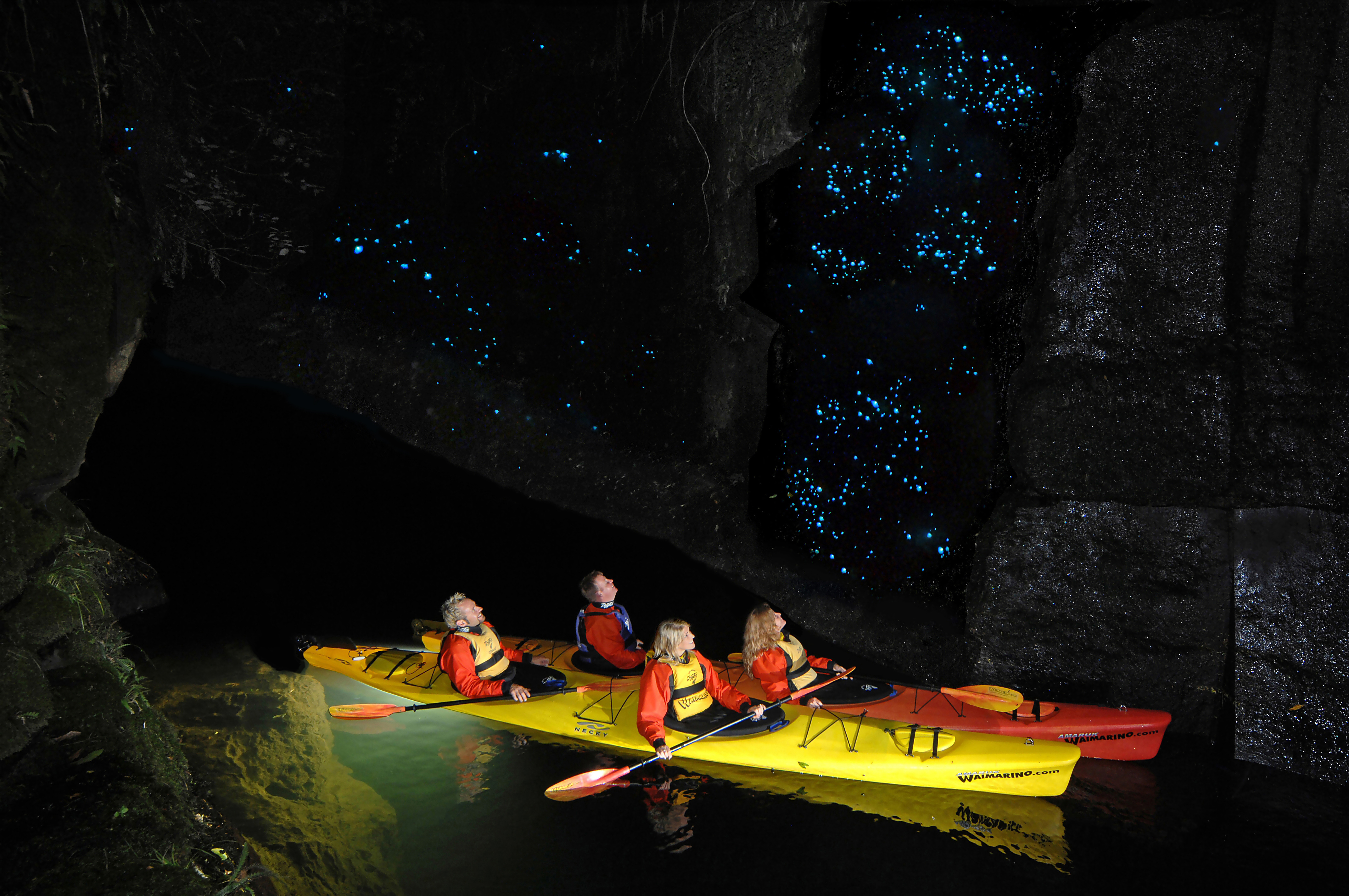 Waimarino Glow Worm Kayak Tour at Lake McLaren, Tauranga, New Zealand. Property of Waimarino Ltd. Released in to public domain.